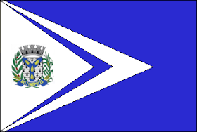 Flags of the city of Delfinópolis, Minas Gerais, Brazil.